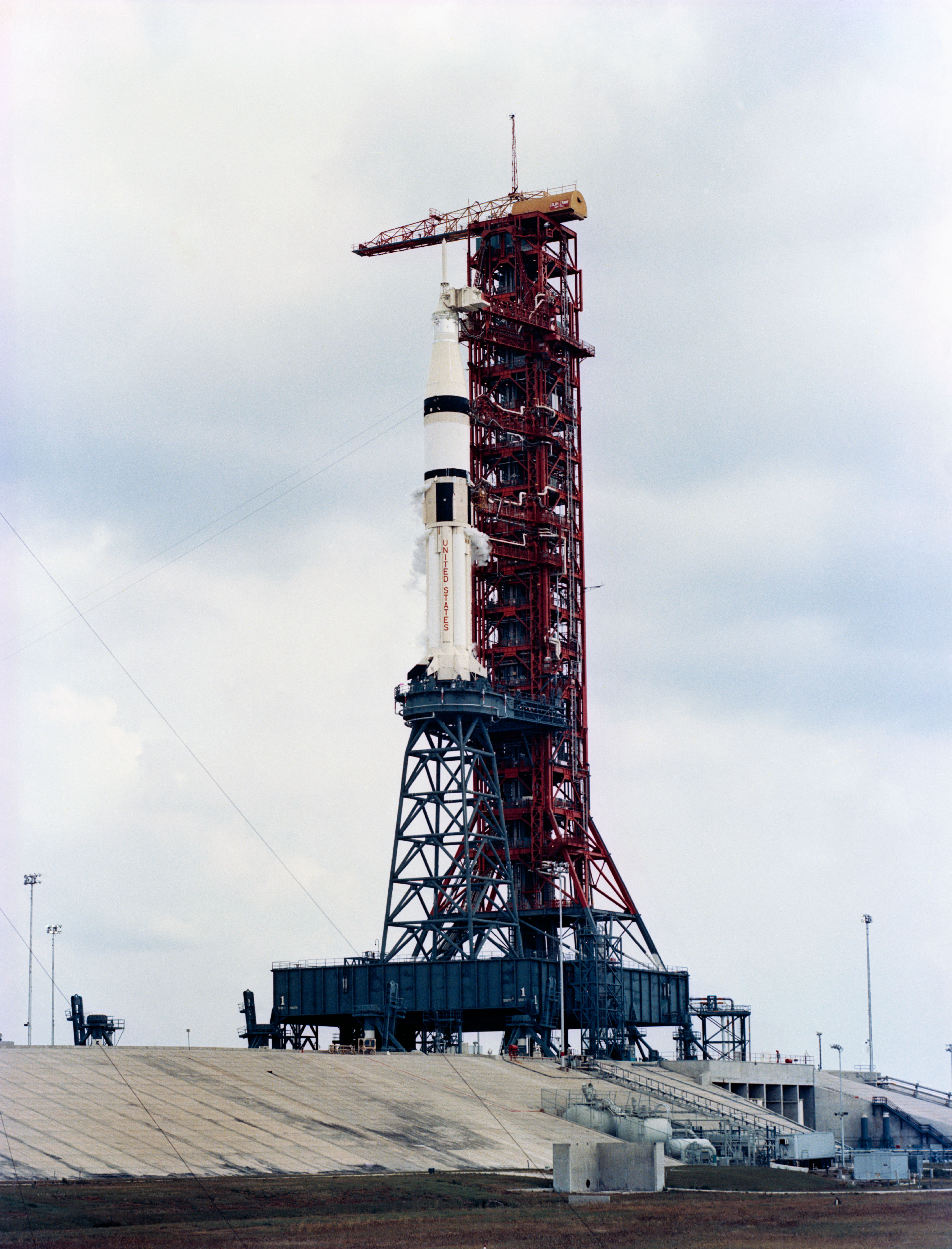 S73-25696 (15 May 1973) --- An overall view of Pad B, Launch Complex 39, Kennedy Space Center, Florida, showing the Skylab 2/Saturn 1B space vehicle during a Countdown Demonstration Test (CDDT). This is the launch vehicle for the first manned Skylab mission. The vapor being emitted from the vehicle is the venting of cryogenic propellants.